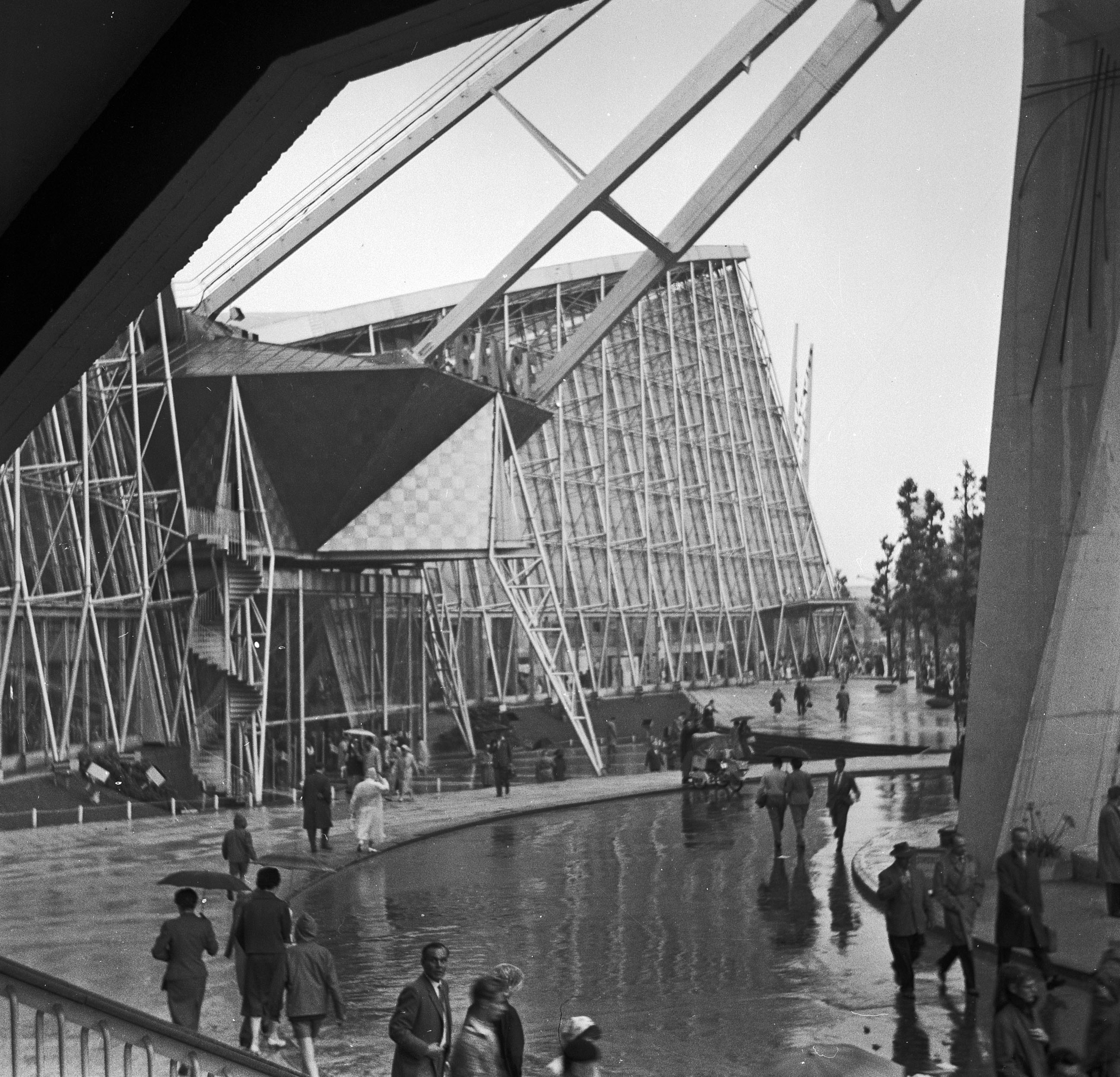 Expo 1958 building of France